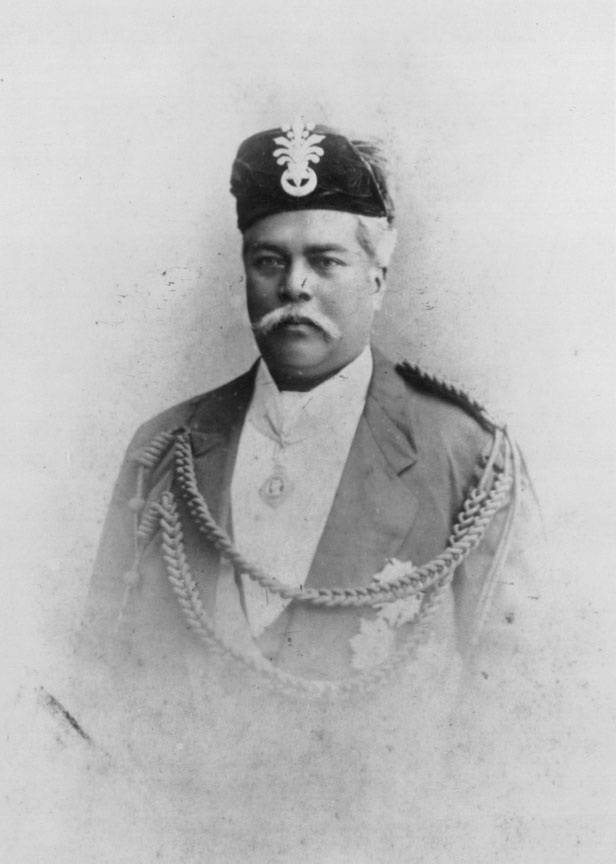 Sultan Sir Abu Bakar ibni Daing Ibrahim (3 February 1833 – 4 June 1895) (Jawi:المرحوم سلطان سير ابو بكر ابن المرحوم تماڠڬوڠ دايڠ إبراهيم سري مهاراج جوهر), also known as Albert Baker, was the 21st Sultan of Johor. Mislabeled as Iaukea.